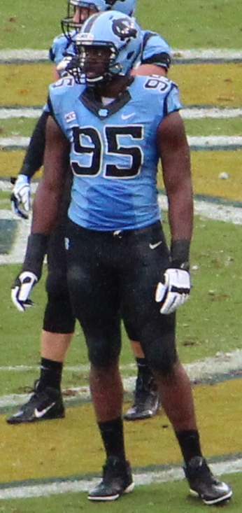 Kareem Martin in 2013